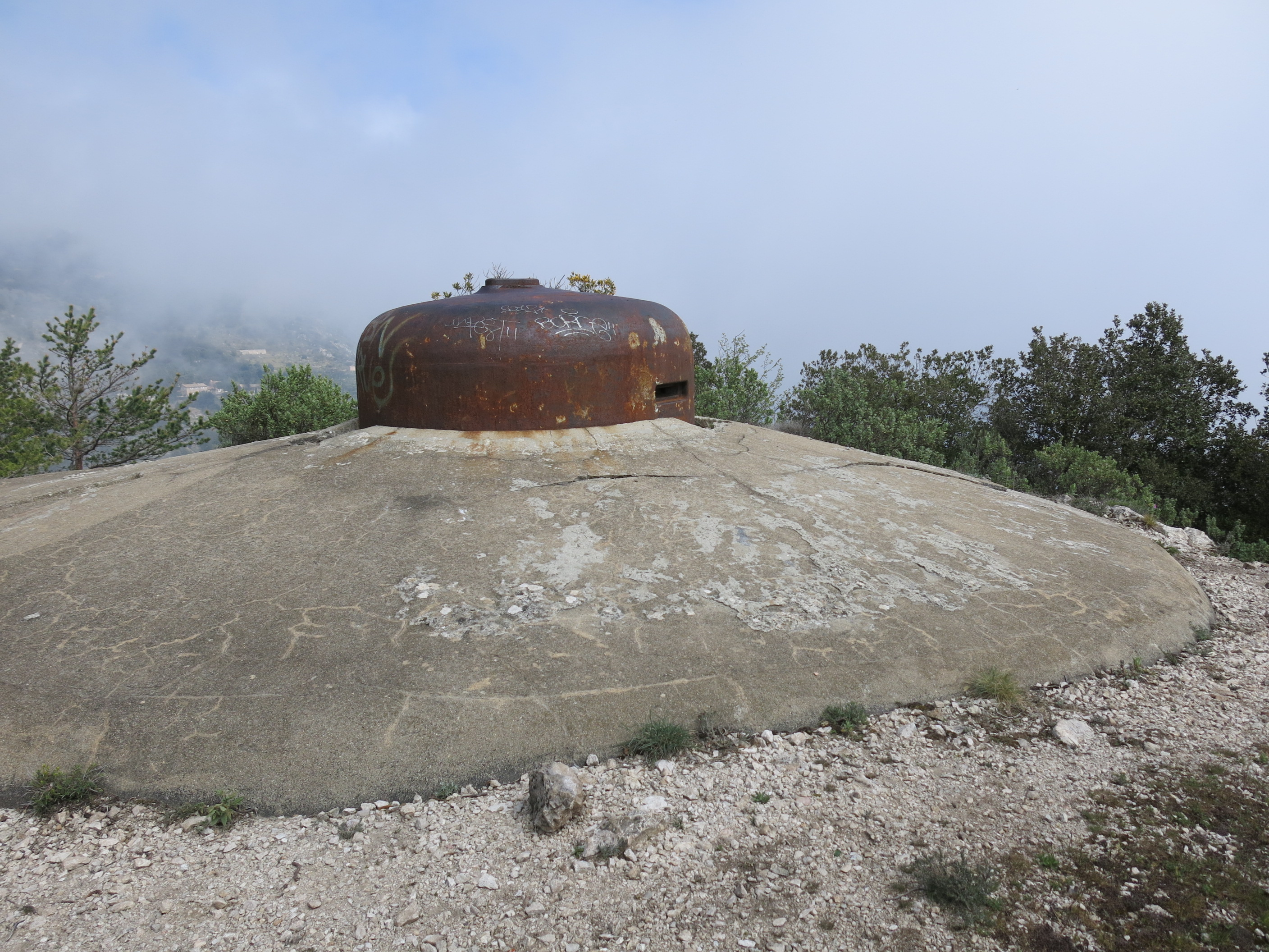 Maginot line cloche on the Mont Gros near Roquebrune (Alpes-Maritimes, France).